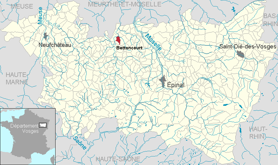 Bettoncourt in the department of Vosges, Lorraine, France